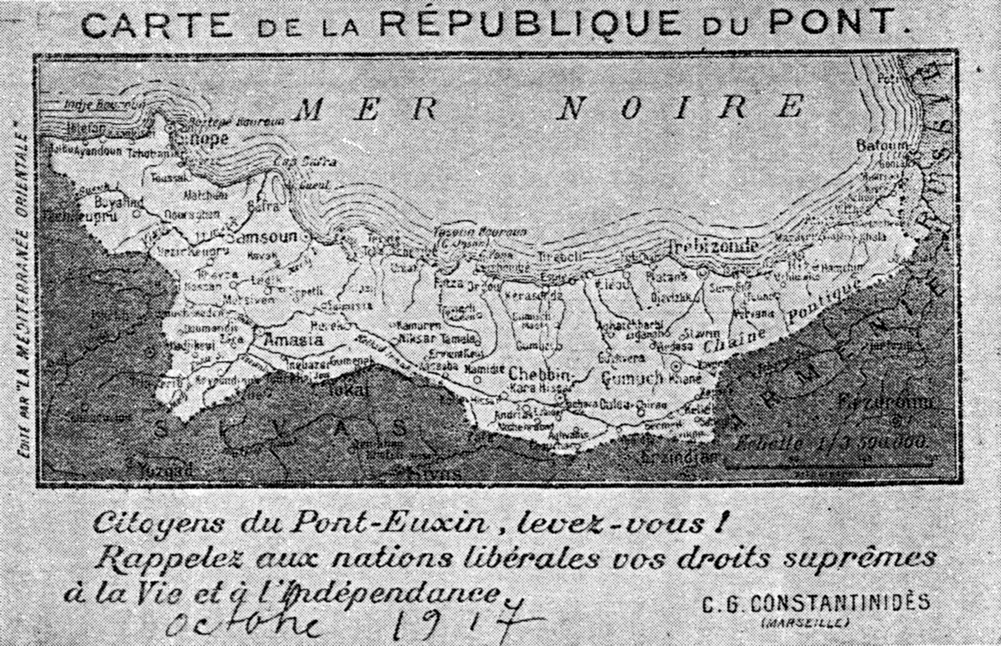 Postcard map of the projected Republic of the Pontus, 1917